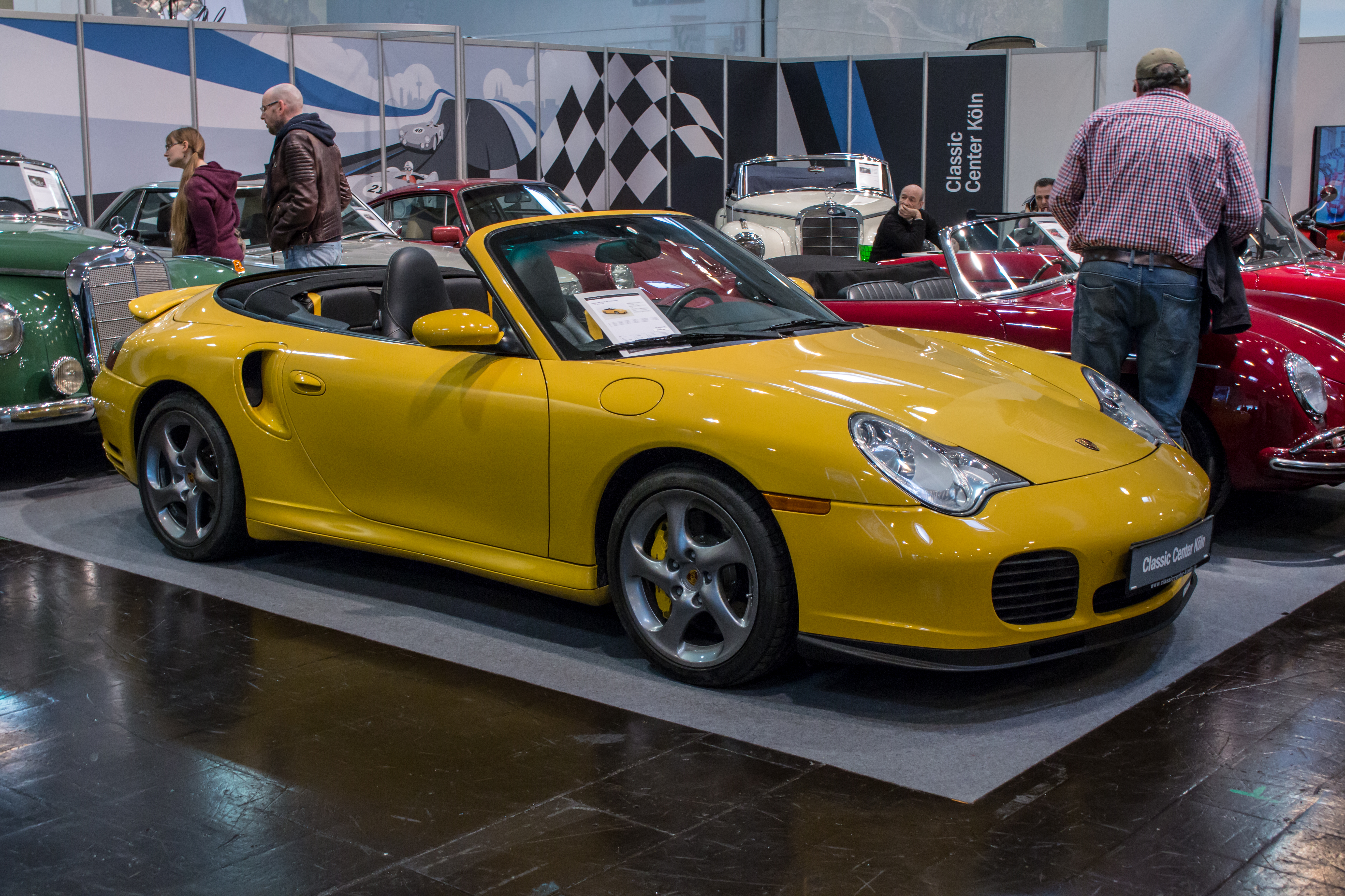 Techno Classica 2018, Essen